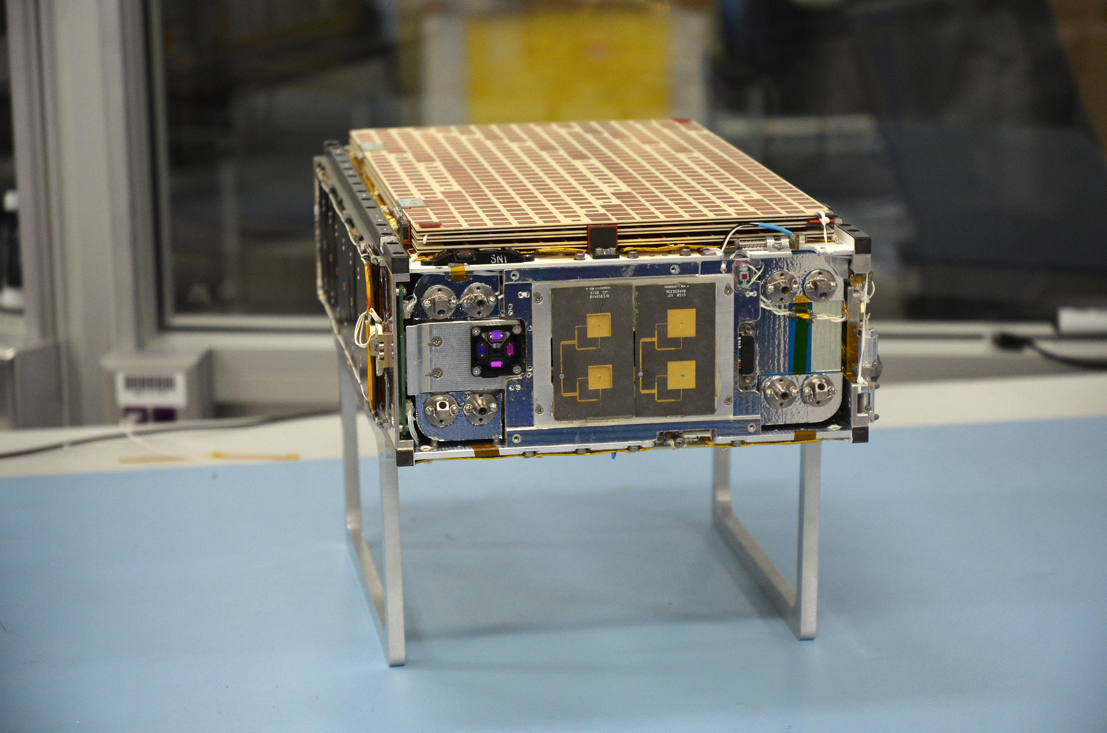 Caption Original Caption Released with Image: One of the two MarCO (Mars Cube One) CubeSat spacecraft is seen at NASA's Jet Propulsion Laboratory, Pasadena, California. The briefcase-size MarCO twins were designed to ride along with NASA's next Mars lander, InSight. Its planned March 2016 launch was suspended. InSight -- an acronym for Interior Exploration using Seismic Investigations, Geodesy and Heat Transport -- will study the interior of Mars to improve understanding of the processes that formed and shaped rocky planets, including Earth. The MarCO and InSight projects are managed for NASA's Science Mission Directorate, Washington, by JPL, a division of the California Institute of Technology, Pasadena. Photojournal Note: After thorough examination, NASA managers have decided to suspend the planned March 2016 launch of the Interior Exploration using Seismic Investigations Geodesy and Heat Transport (InSight) mission. The decision follows unsuccessful attempts to repair a leak in a section of the prime instrument in the science payload. Image Credit: NASA/JPL-Caltech Image Addition Date: 2016-01-20